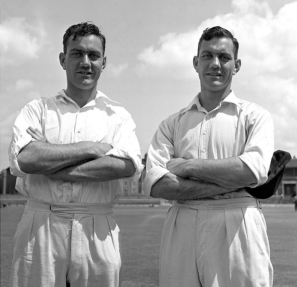 Cricket. 1946. The Bedser twins Eric left and Alec right who played for Surrey and England, pictured together in their +whites+ on a cricket field smiling at the camera.